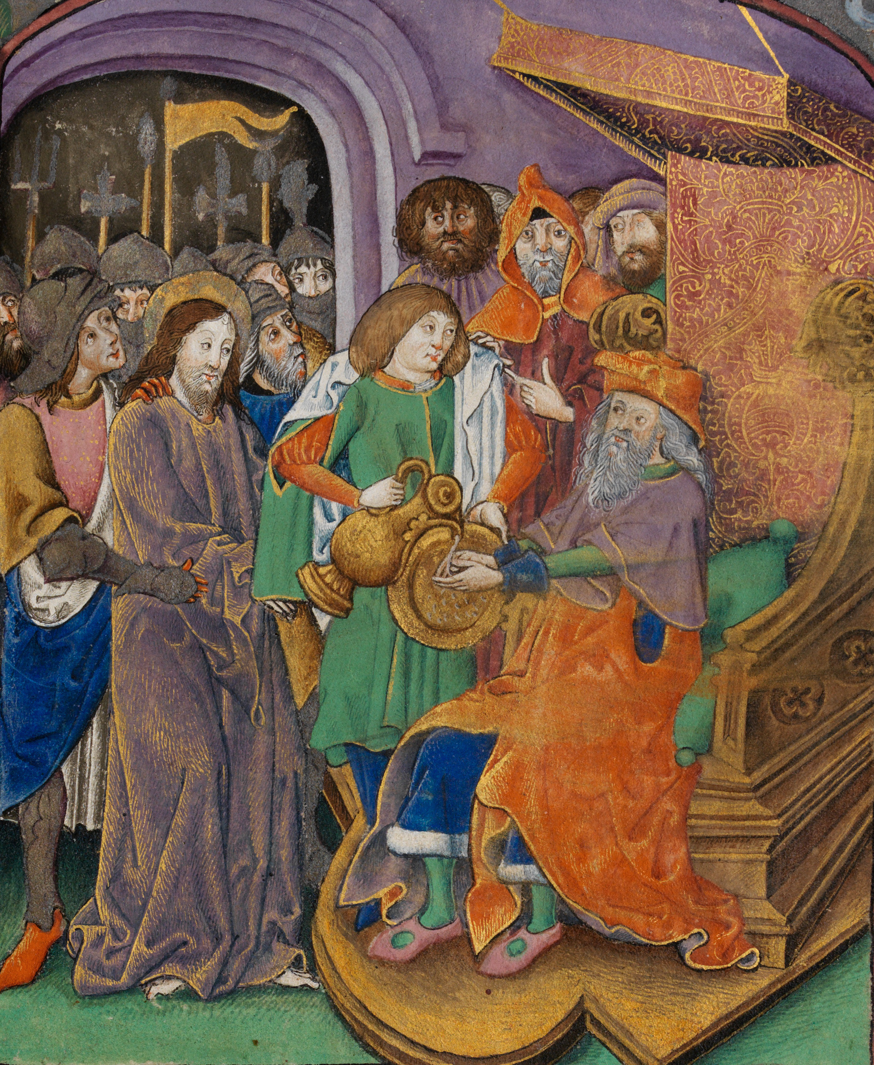 Christ before Pilate, with Pilate washing his hands